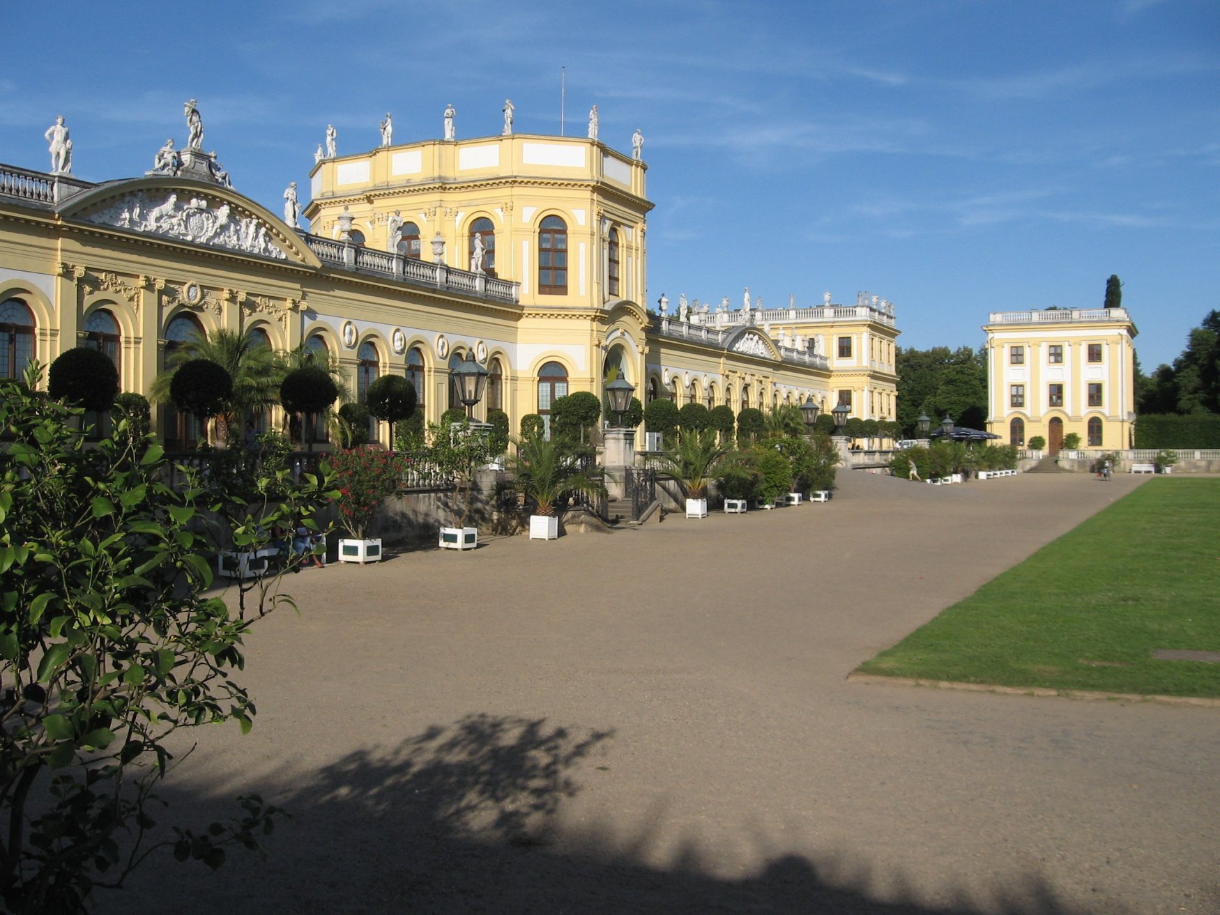 Orangerie in Cassel / Germany